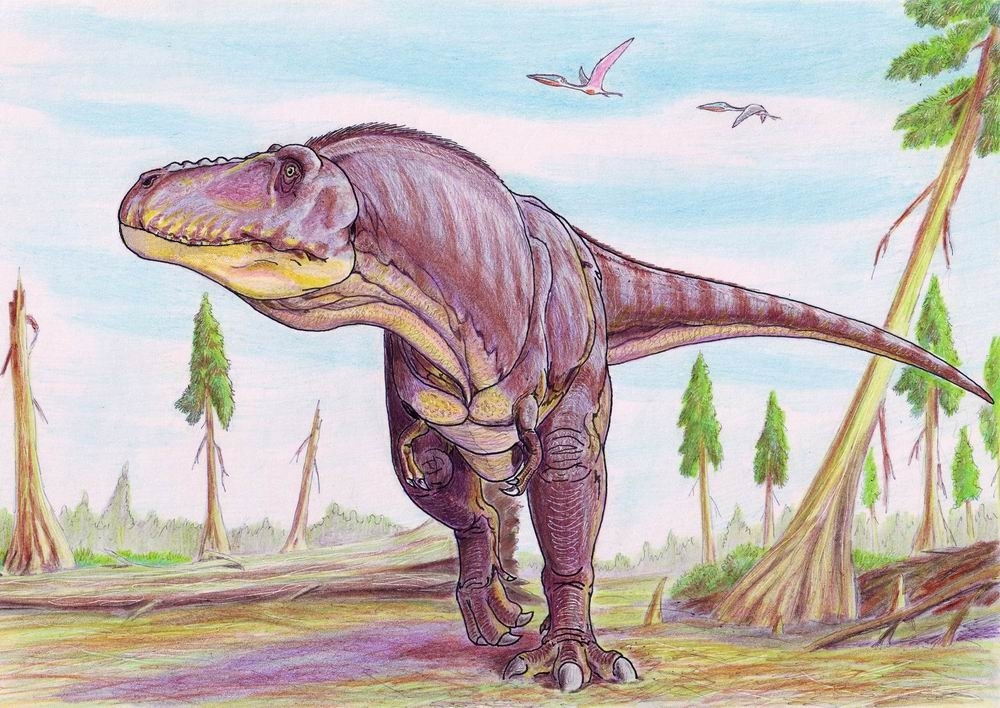 Tarbosaurus, autor - Bogdanov, 2006